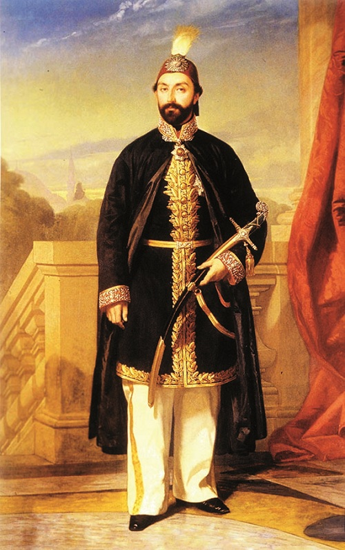 Rupen Manas (Rubens Manasie) - Portrait of Abdulmecid I, Drottningholm Palace, Sweden.